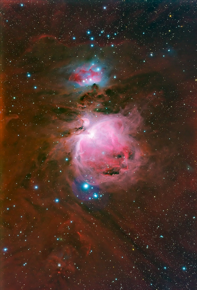 Messier 42, The Great Nebula in Orion, imaged with Pentax 105 SDP refractor and monochrome SBIG STL-11000 CCD camera fitted with H-alpha and LRGB filters. Taken from Petrova Gora, Croatia.